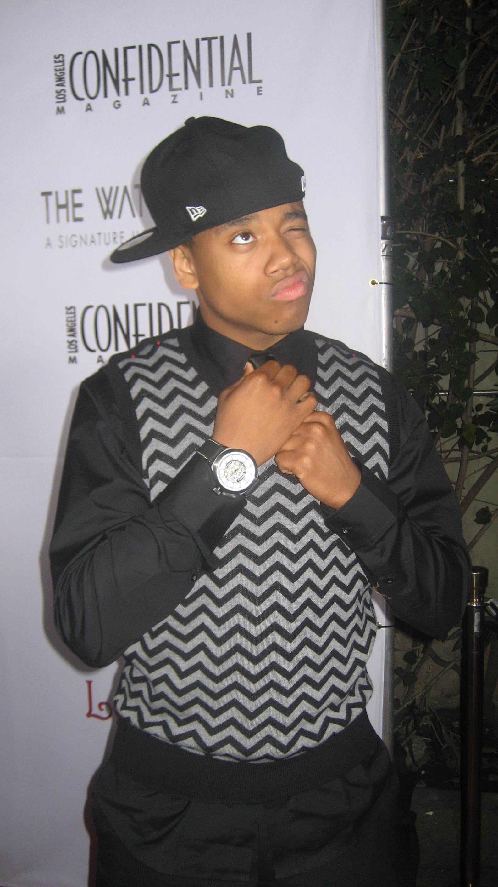 Actor Tristan Wilds In l.a. confidential magazine pre-emmy party 2008